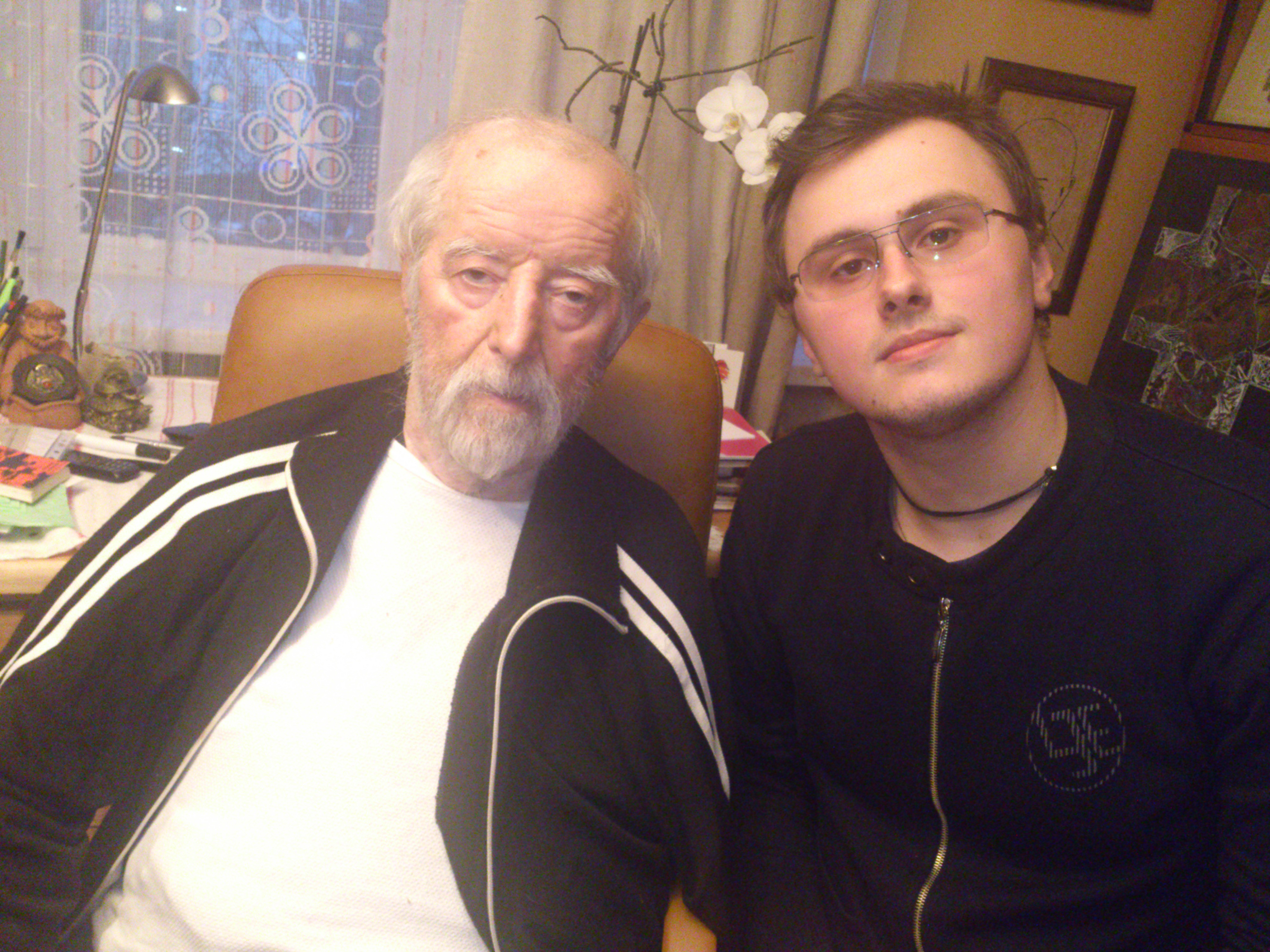 Ryhor Baradulin and his fan.